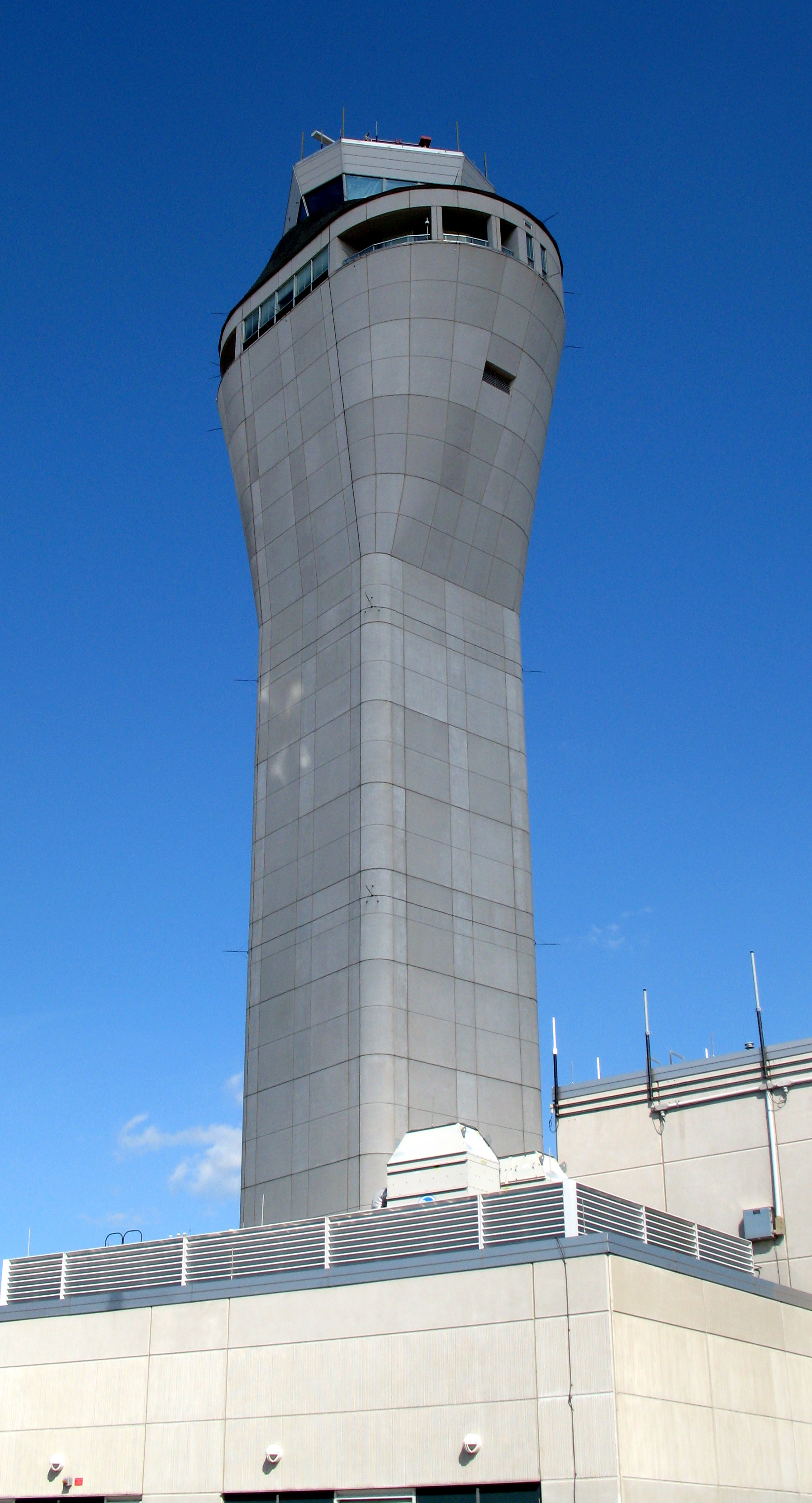 The new control tower at Seattle-Tacoma International Airport